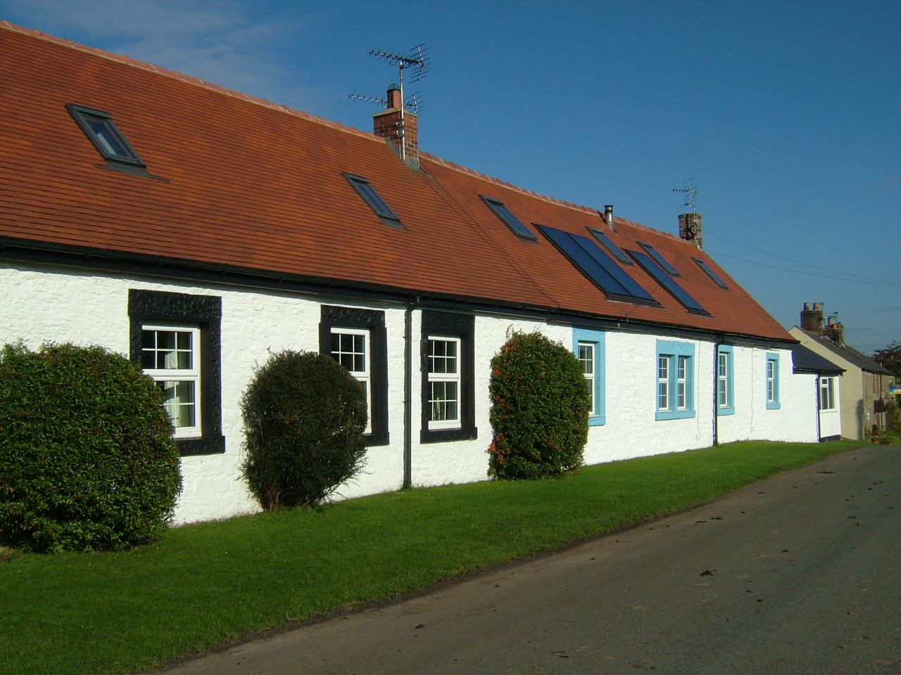 Hallbankgate a village in Cumbria on the A689 Brampton to Alston road. It is village with a mining tradition on the former 'Lord Carlisle's 1775 railway'.